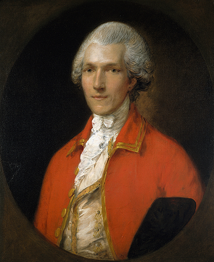 Sir Benjamin Thompson, later Count Rumford (1753–1814)